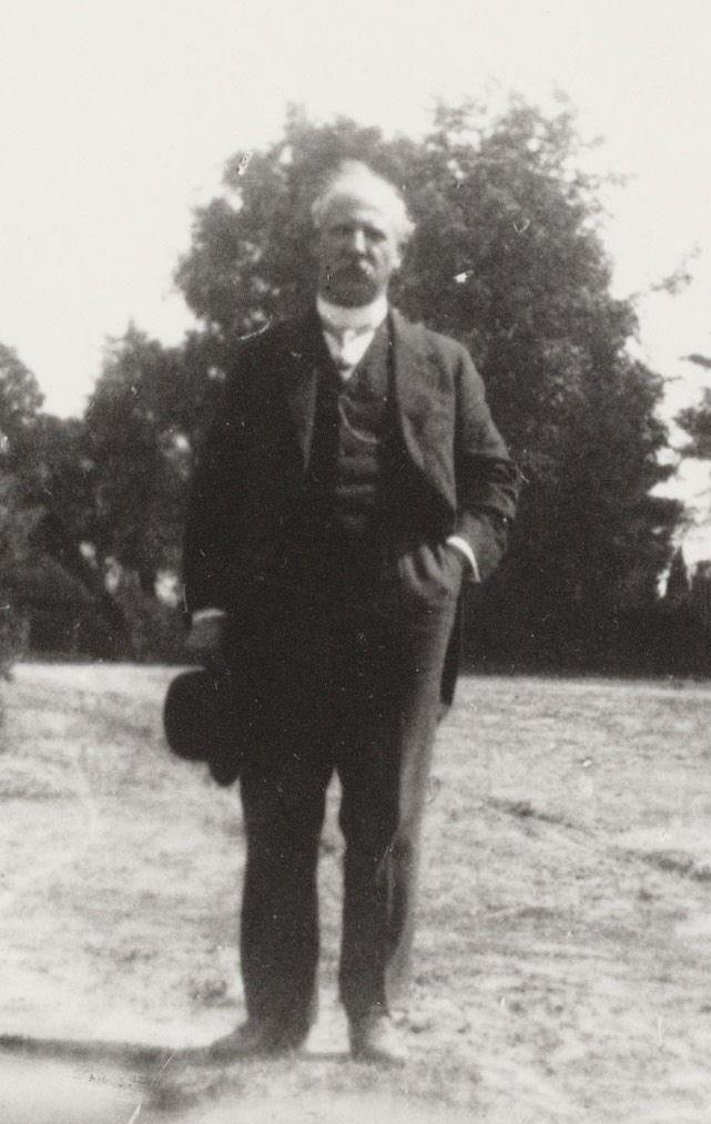 Photograph of Cornelius Ubbo Ariëns Kappers by Jacob Merkelbach (1877-1942)